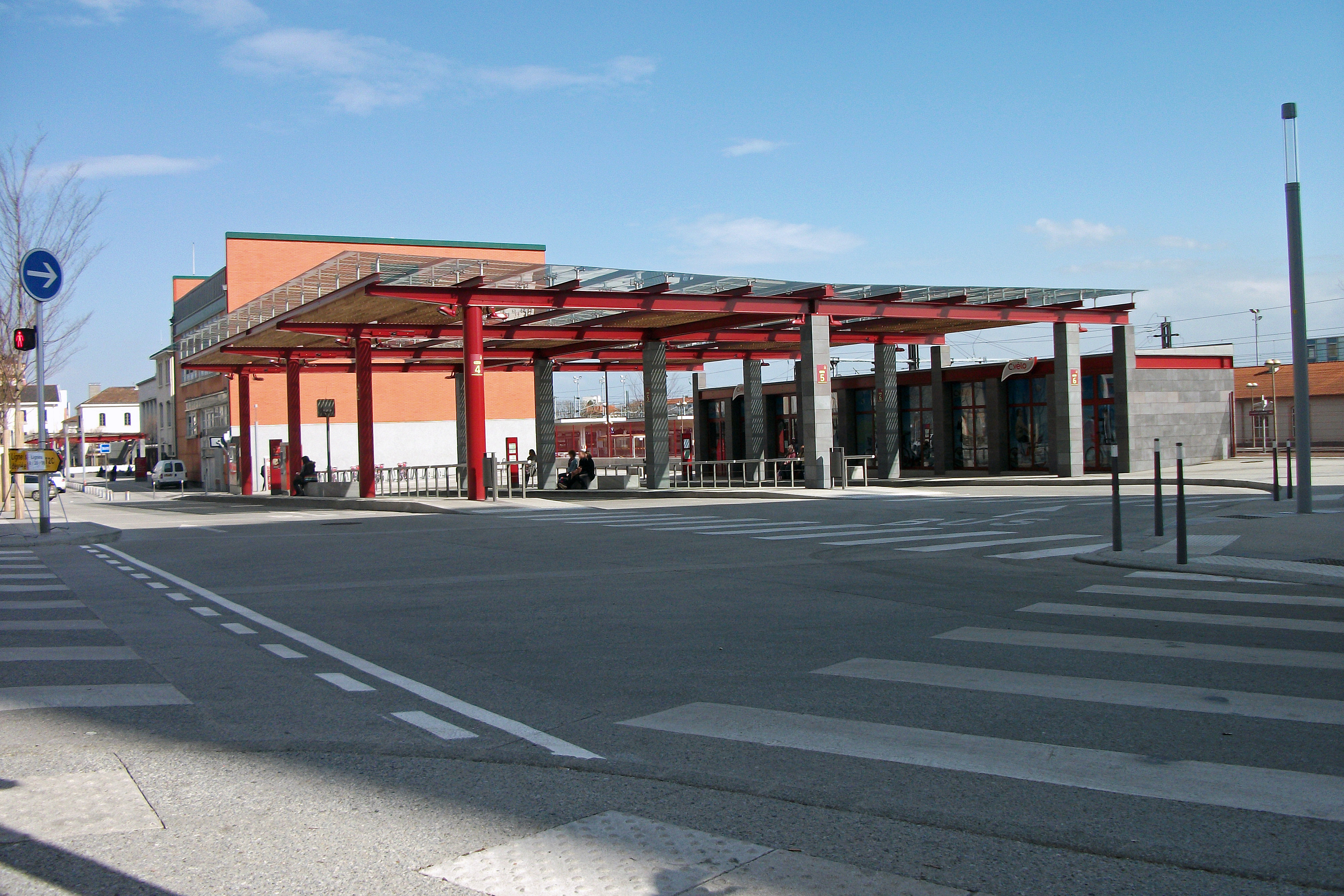 Stop and parking bus area - New intermodal hub - Platforms 4, 5 and 6